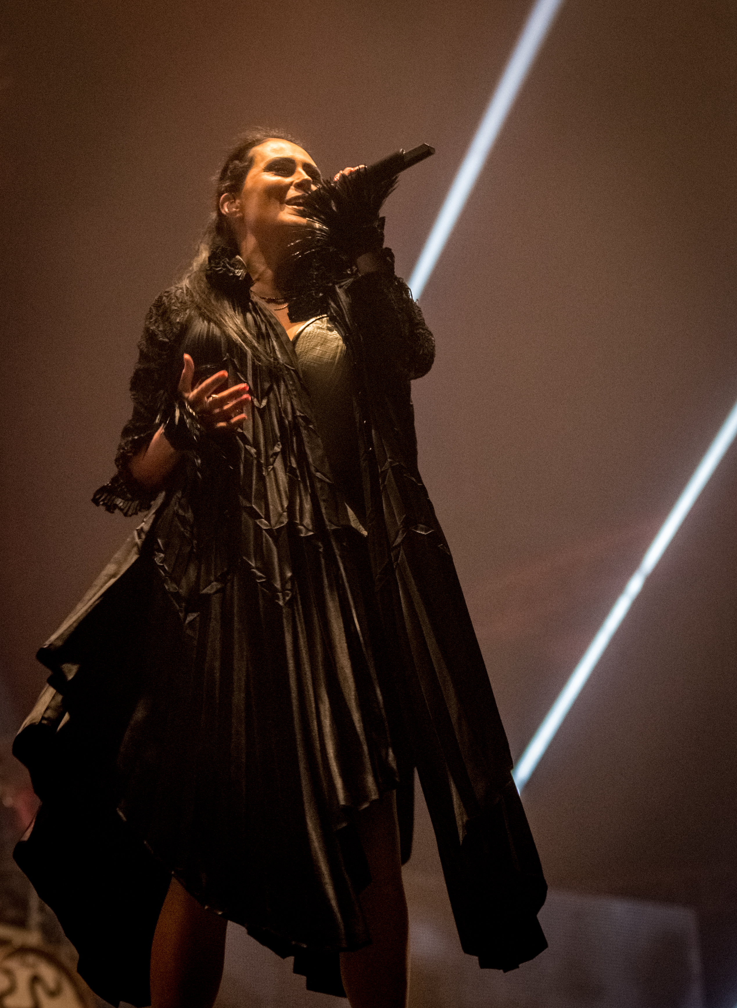 Within Temptation - Wacken Open Air 2015